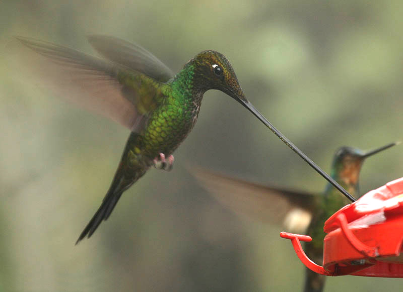 Sword-billed Hummingbird (Ensifera ensifera). "This bill was amazing! Yanacocha Reserve, NW Ecuador. 3/8/2007". A female Buff-winged Starfrontlet (Coeligena lutetiae) can be seen in the background.